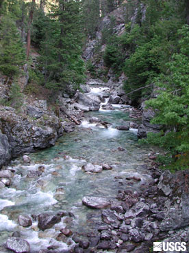 Bridge Creek in the North Cascades of Washington state; Bridge Creek in a tributary of the Stehekin River